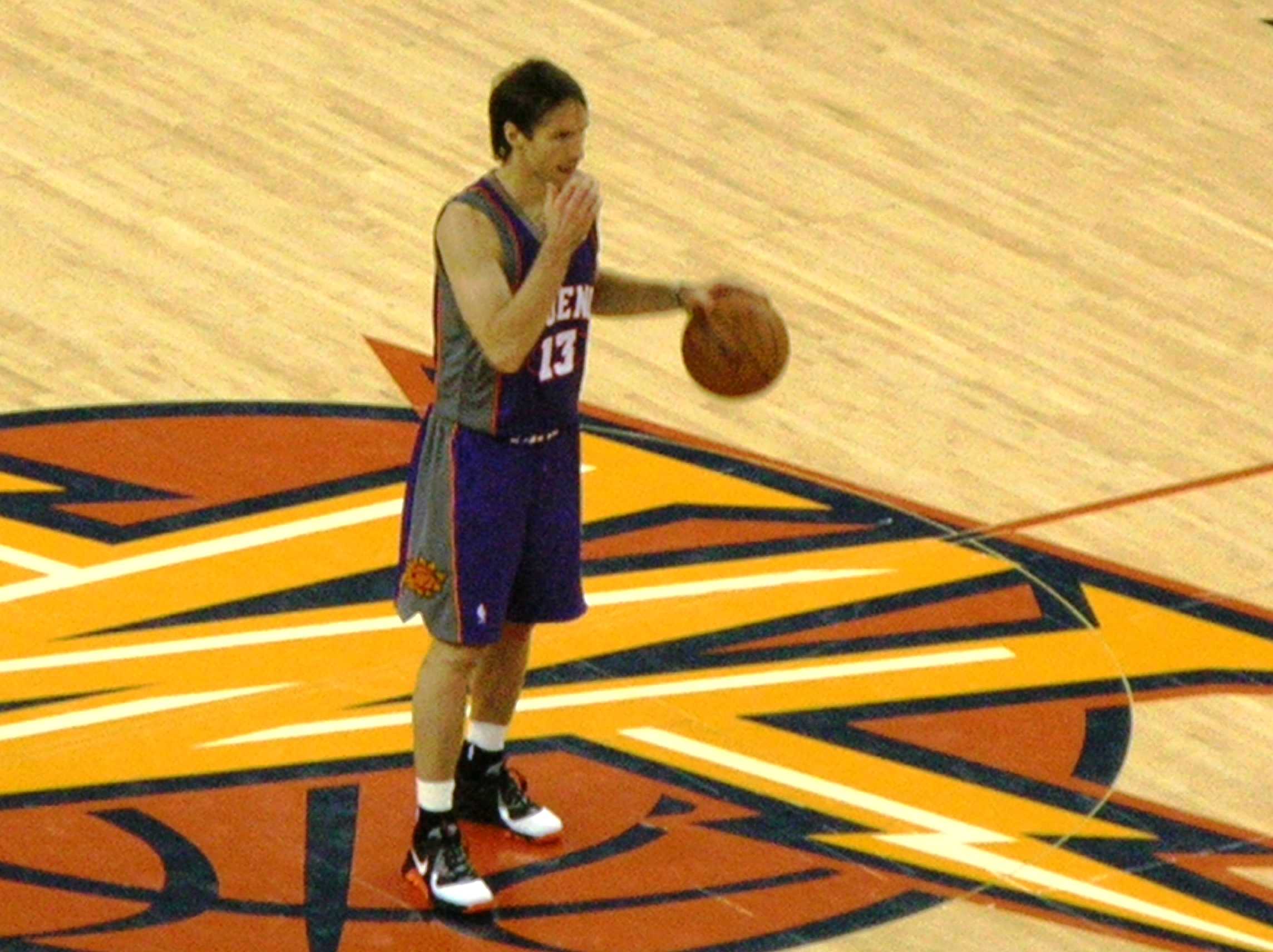 Phoenix Suns point guard Steve Nash at a road game against the Golden State Warriors. The Suns won 154-130.